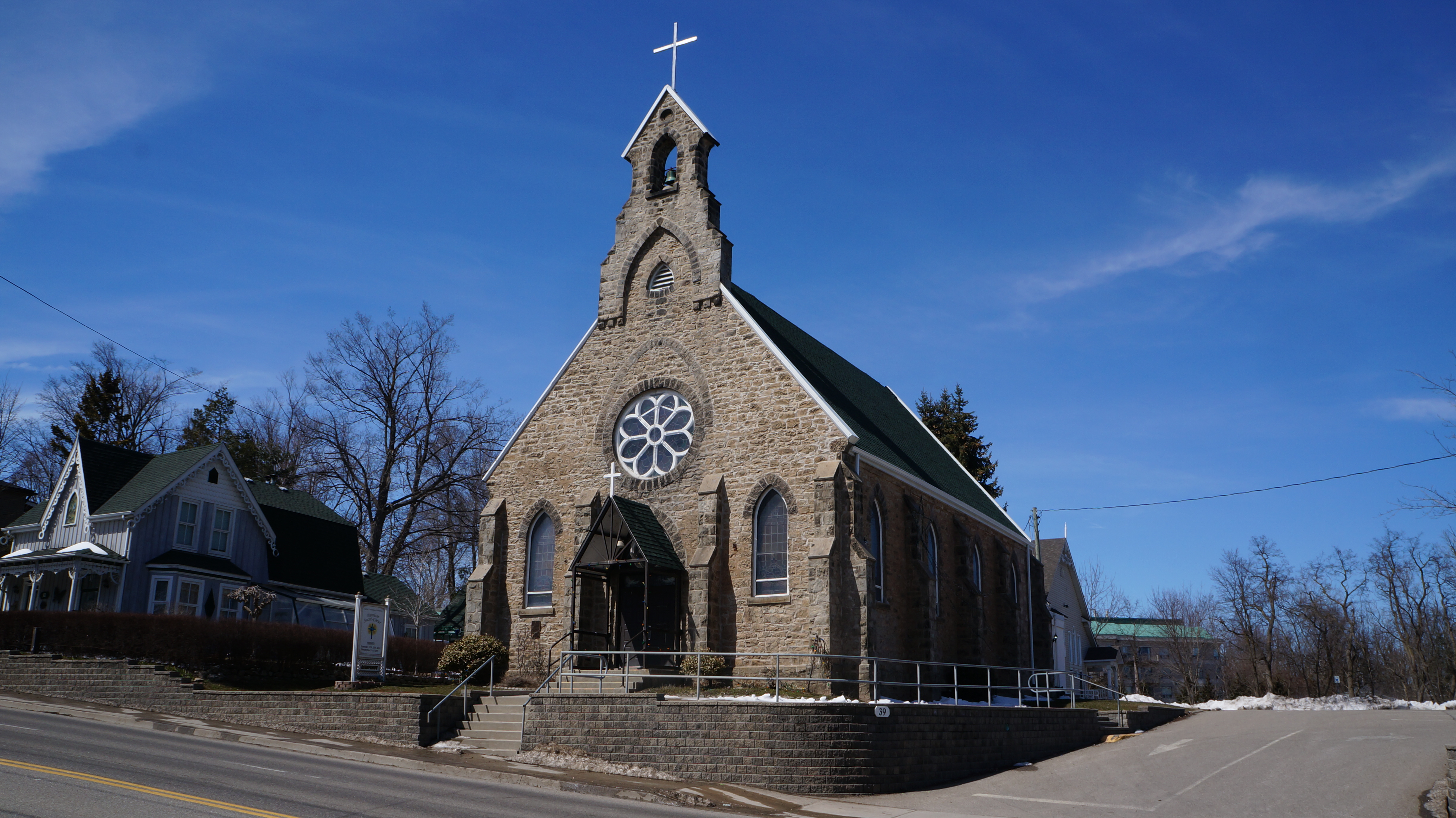 Église du Sacré-Cœur formerly Holy Cross Church, Georgetown Ontario